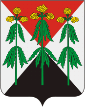 Kimovsk rayon (Tula oblast), coat of arms